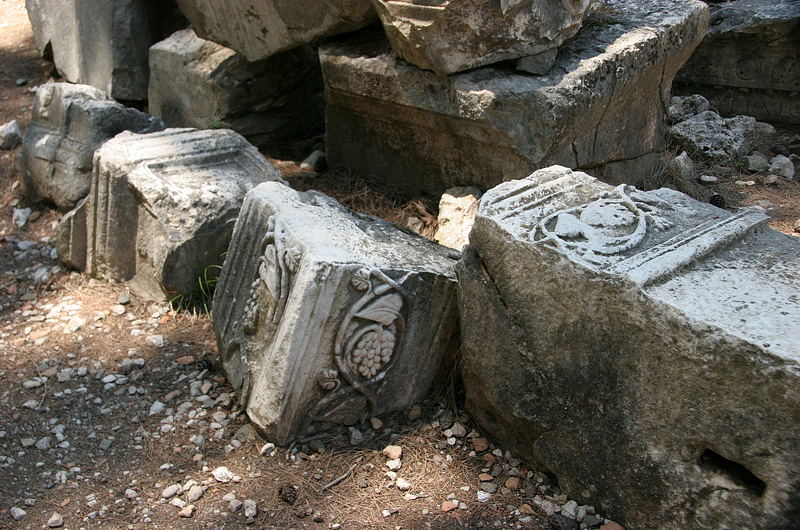 Ornamented broken column in Phaselis